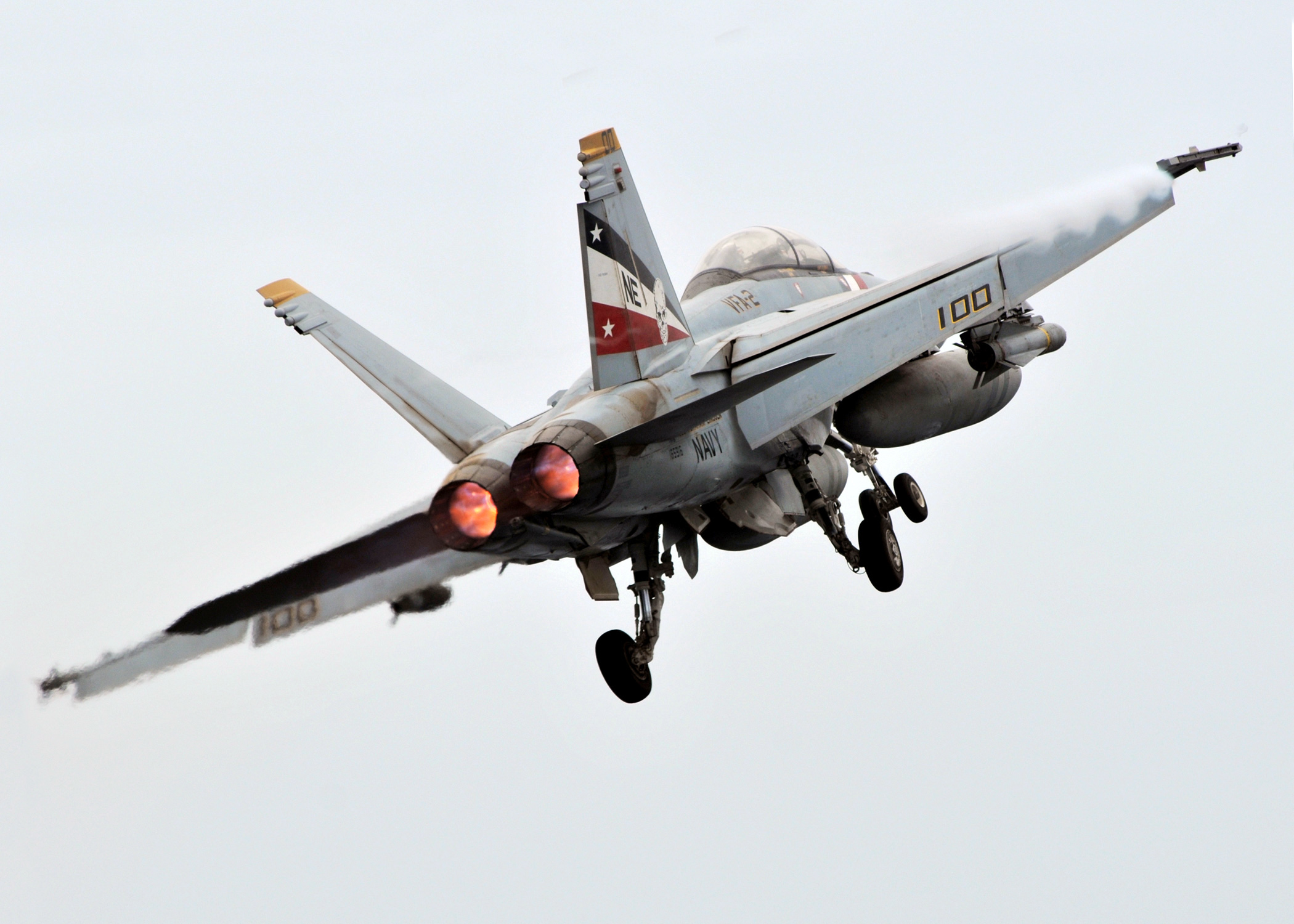 NORTH ARABIAN SEA (July 10, 2008) An F/A-18F Super Hornet assigned to the "Bounty Hunters" of Strike Fighter Squadron (VFA) 2 climbs away from the Nimitz-class aircraft carrier USS Abraham Lincoln (CVN-72) after being launched from one of the ship's four steam-powered catapults. Lincoln is deployed to the U.S. 5th Fleet area of responsibility to support Operations Iraqi Freedom and Enduring Freedom as well as maritime security operations.